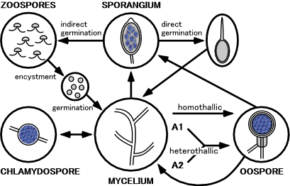 A figure of Life cycle of Phytophthora. By a Japanese user Fk.